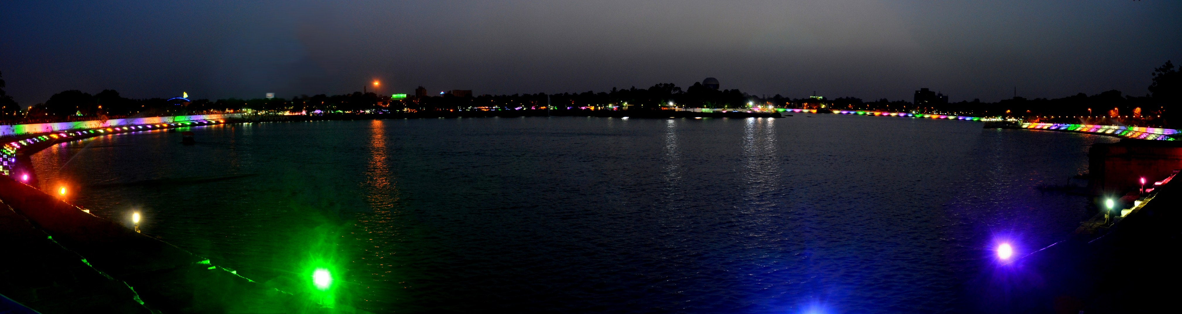 Night Panorama of Kankaria Lake